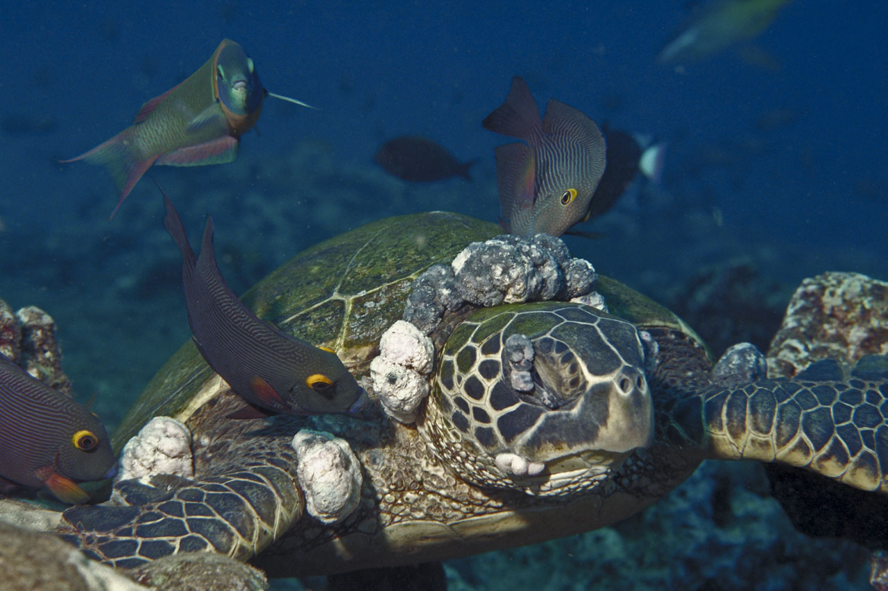 This Hawaiian green turtle is severely afflicted with fibropapillomatosis. The mouth tumors, which are unique to Hawaiian greens, can also occur inside the mouth and throat, impairing breathing and eating. The eye tumors impair vision and can blind the turtle. The large tumors around the flippers can impair swimming. Although FP tumors are benign, they can easily be a significant factor in a turtle's death.